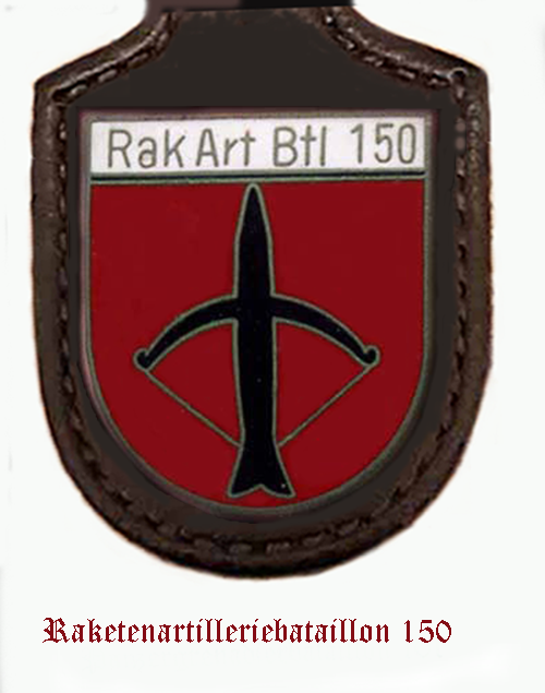 Internal coat of arms Raketenartilleriebataillon 150 (RakArtBtl 150) of the Bundeswehr (Armed Forces of the Federal Republic of Germany). → Remarks on naming and categorization scheme